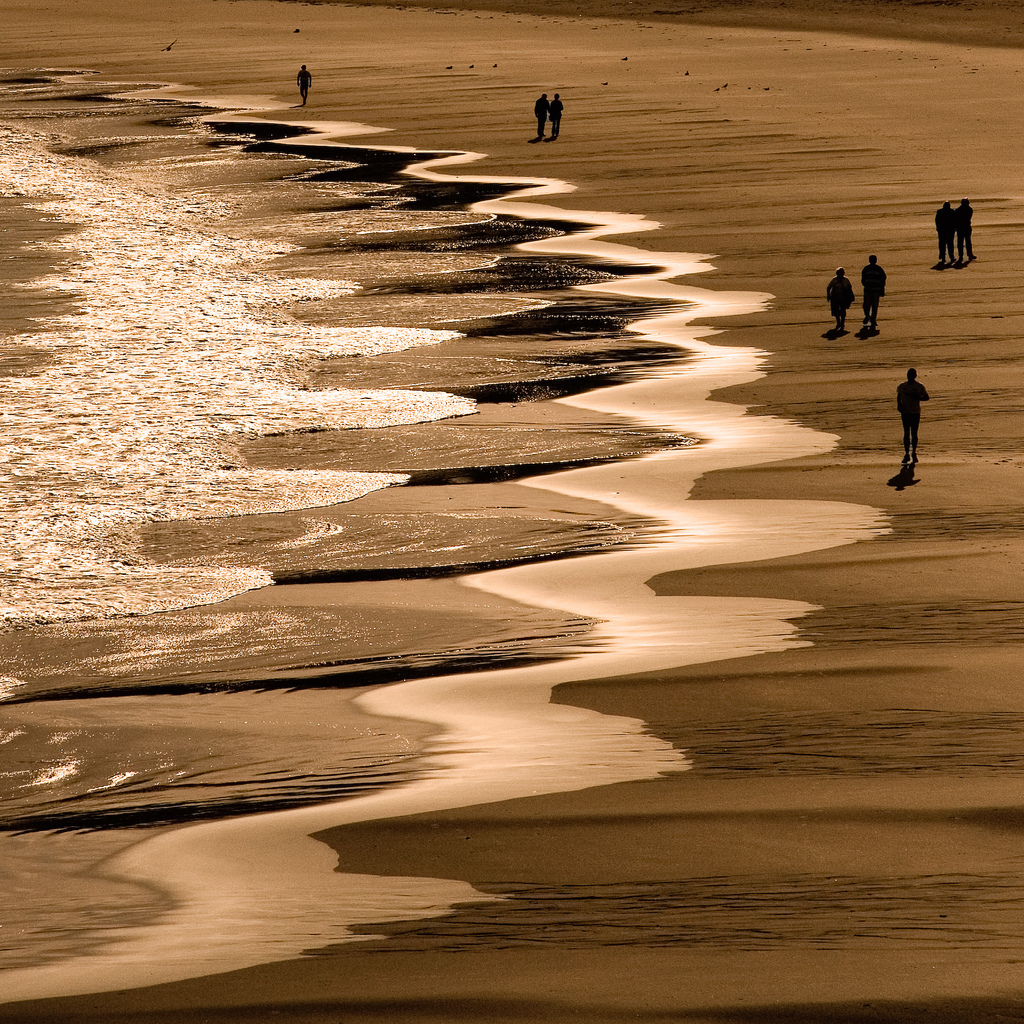 At the beach